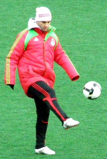 Davit Mujiri warming up for FC Lokomotiv Moscow